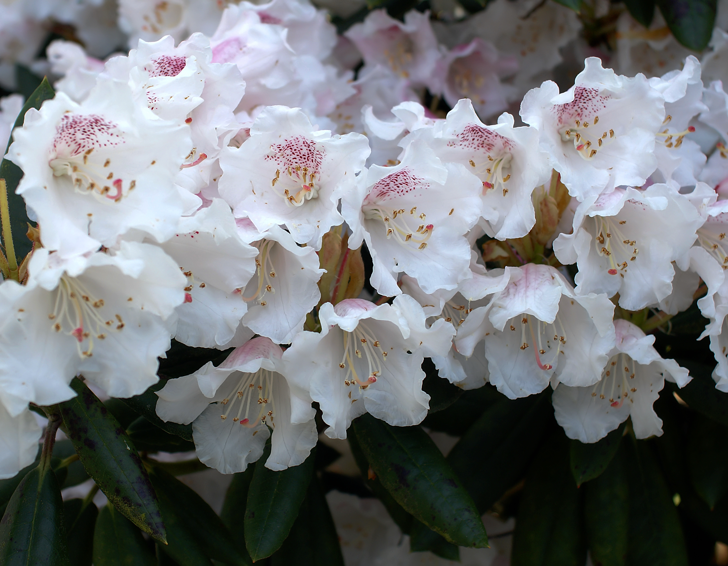 Rhododendron wardii var. puralbum at Finnerty Gardens, University of Victoria, Victoria, British Columbia, Canada.